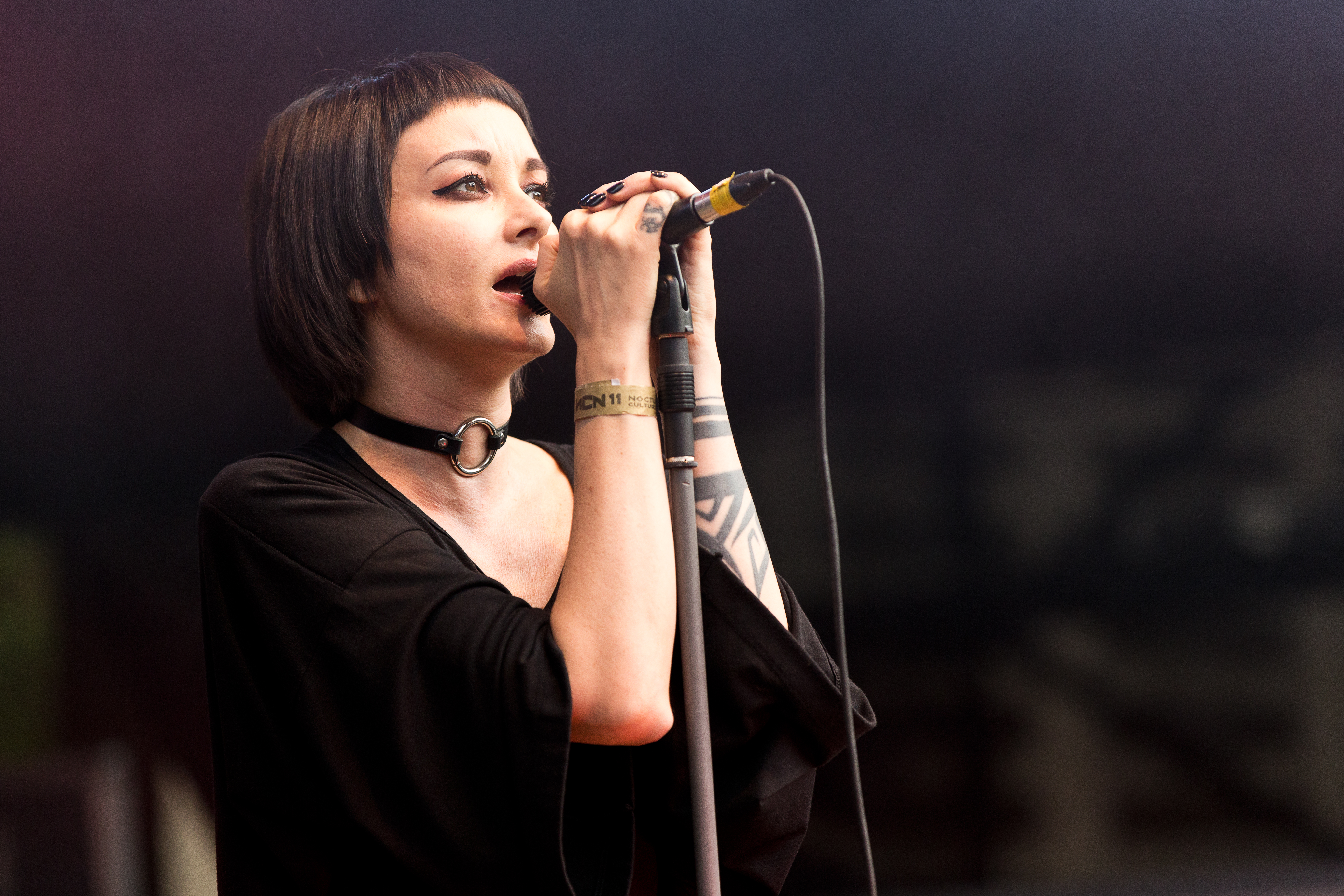 The Italian electro and gothic rock singer Tying Tiffany at the Nocturnal Culture Night 11 2016 in Deutzen/Germany.